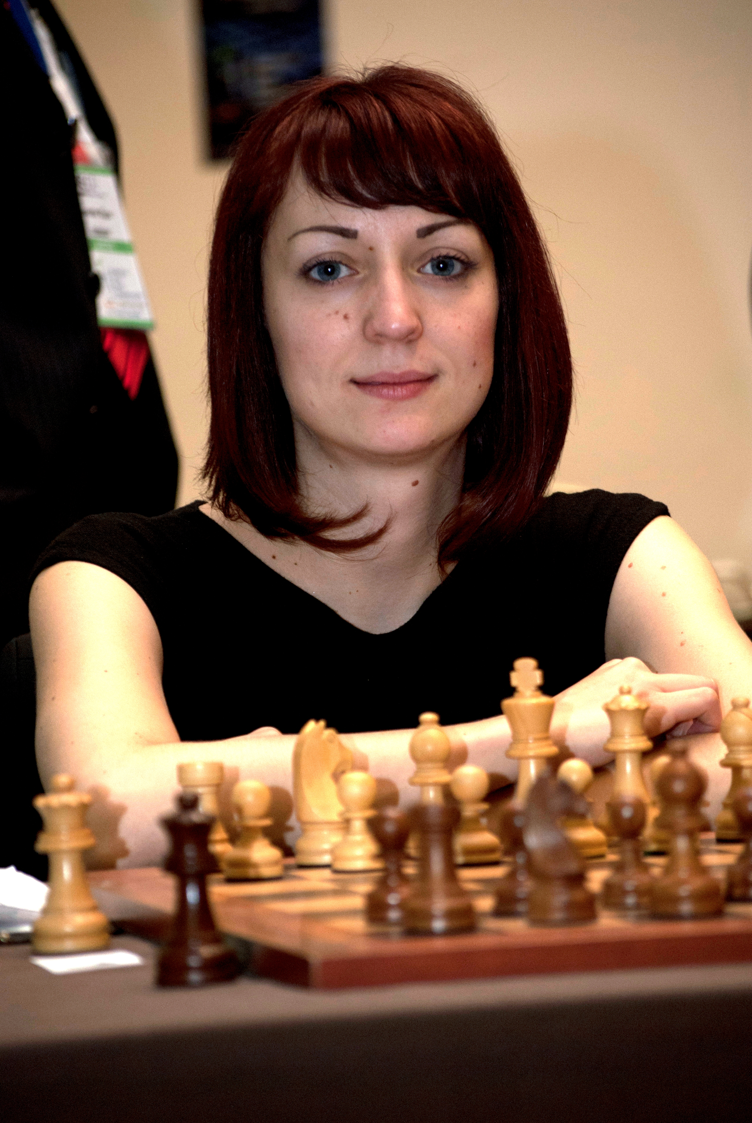 IM Elisabeth Pähtz, Porto Carras EchT 2011.